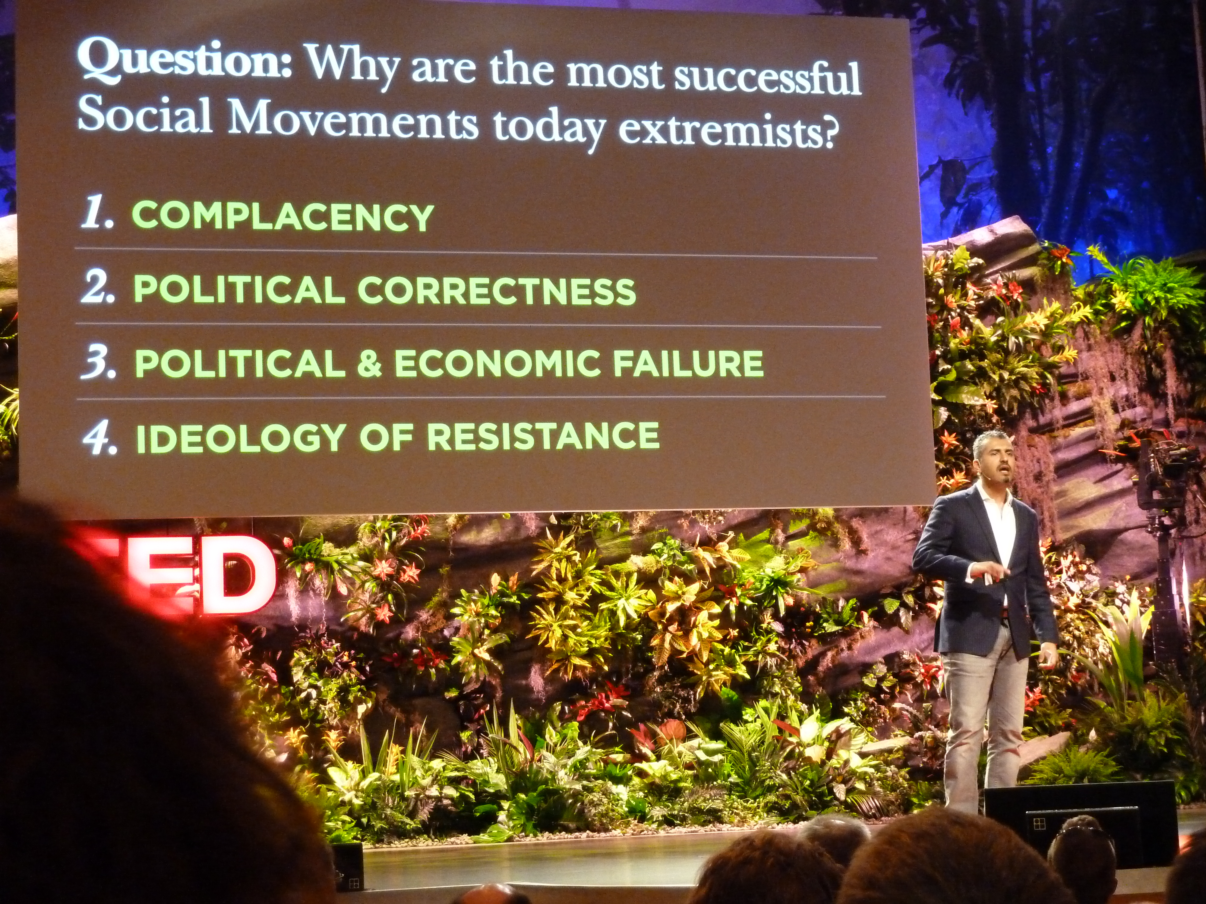 Maajid Nawaz during his TED talk "A Global Culture to Fight Extremism"